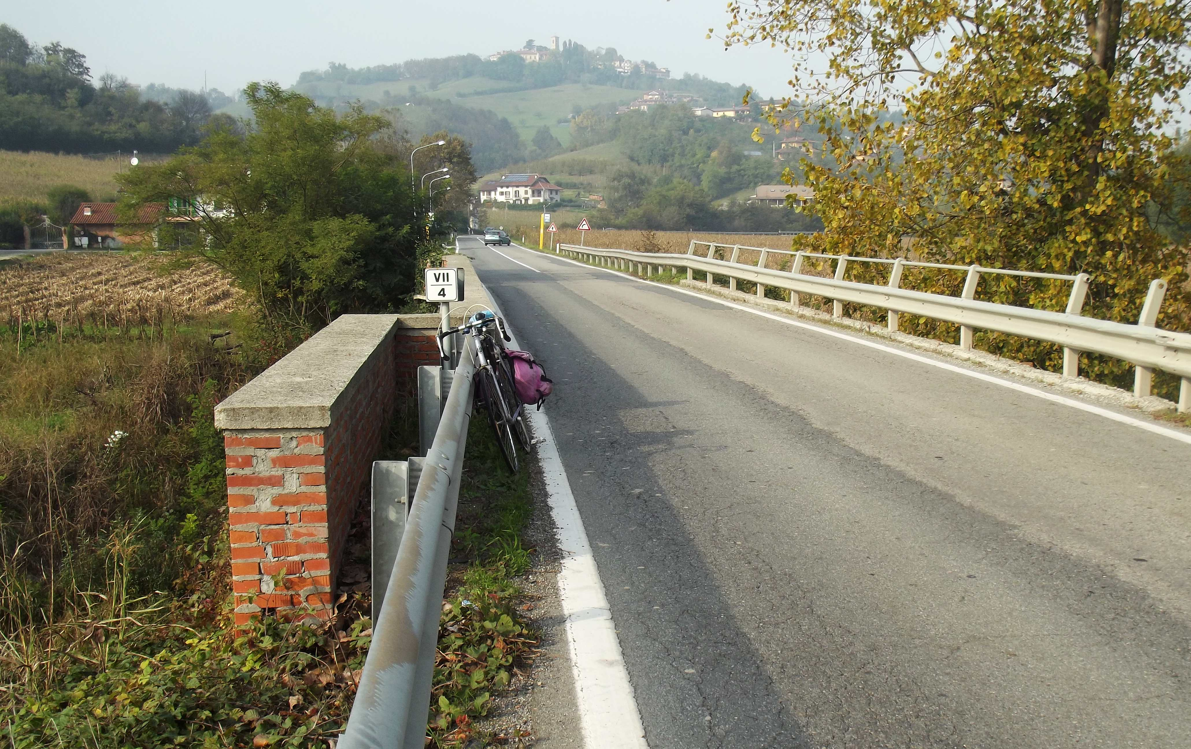 San Sebastiano da Po (TO, Italy): the bridge of the former 458 national road on torrente Leona